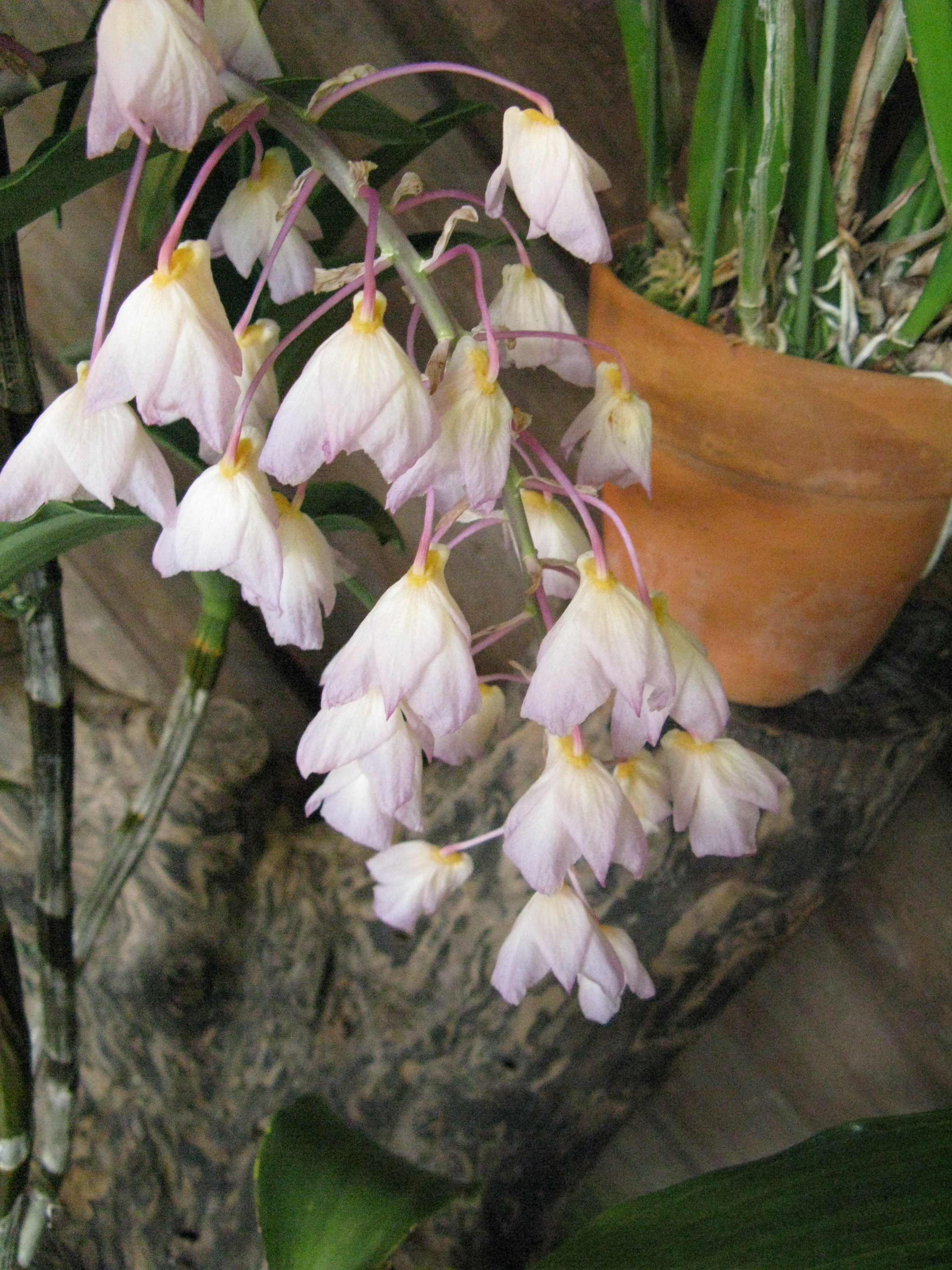 Scientific name Dendrobium bronckartii Place:Osaka Prefectural Flower Garden,Osaka,Japan